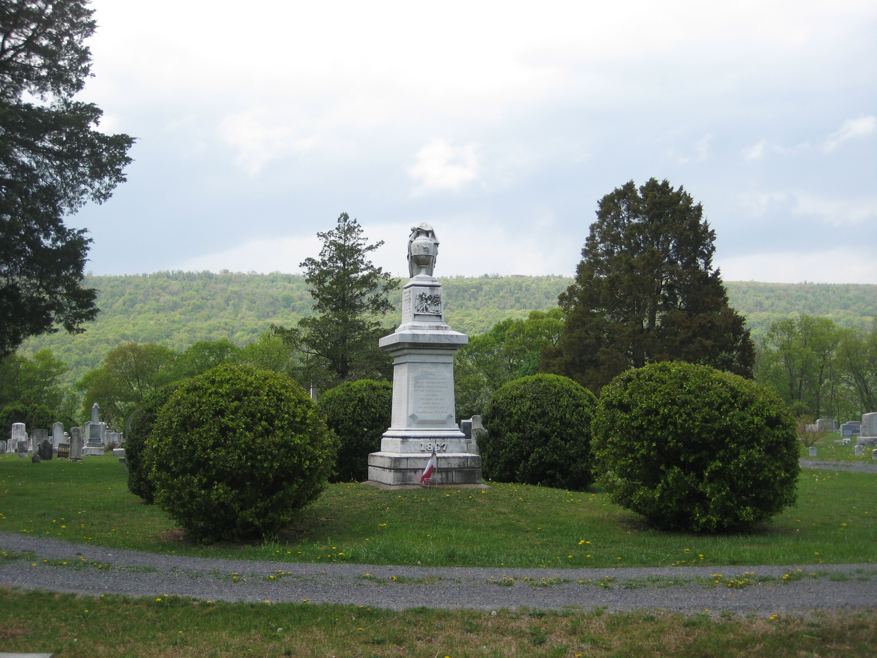 The Confederate Memorial (also referred to as the First Confederate Memorial) is a memorial in Indian Mound Cemetery in Romney, West Virginia. The memorial commemorates residents of Hampshire County who died during the American Civil War fighting for the Confederate States of America. The memorial was sponsored by the Confederate Memorial Association, which formally dedicated the monument on September 26, 1867. It is thought to be the first memorial structure erected to memorialize the Confederate dead in the United States. Romney also claims to have undertaken the first public decoration of Confederate graves on June 1, 1866.